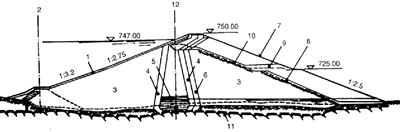 Cross-section of Săcele Dam on Târlung River in Romania